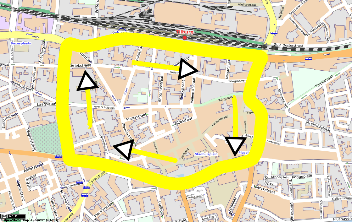 Modified openstreetmap map with CityRing road of tilburg highlighted